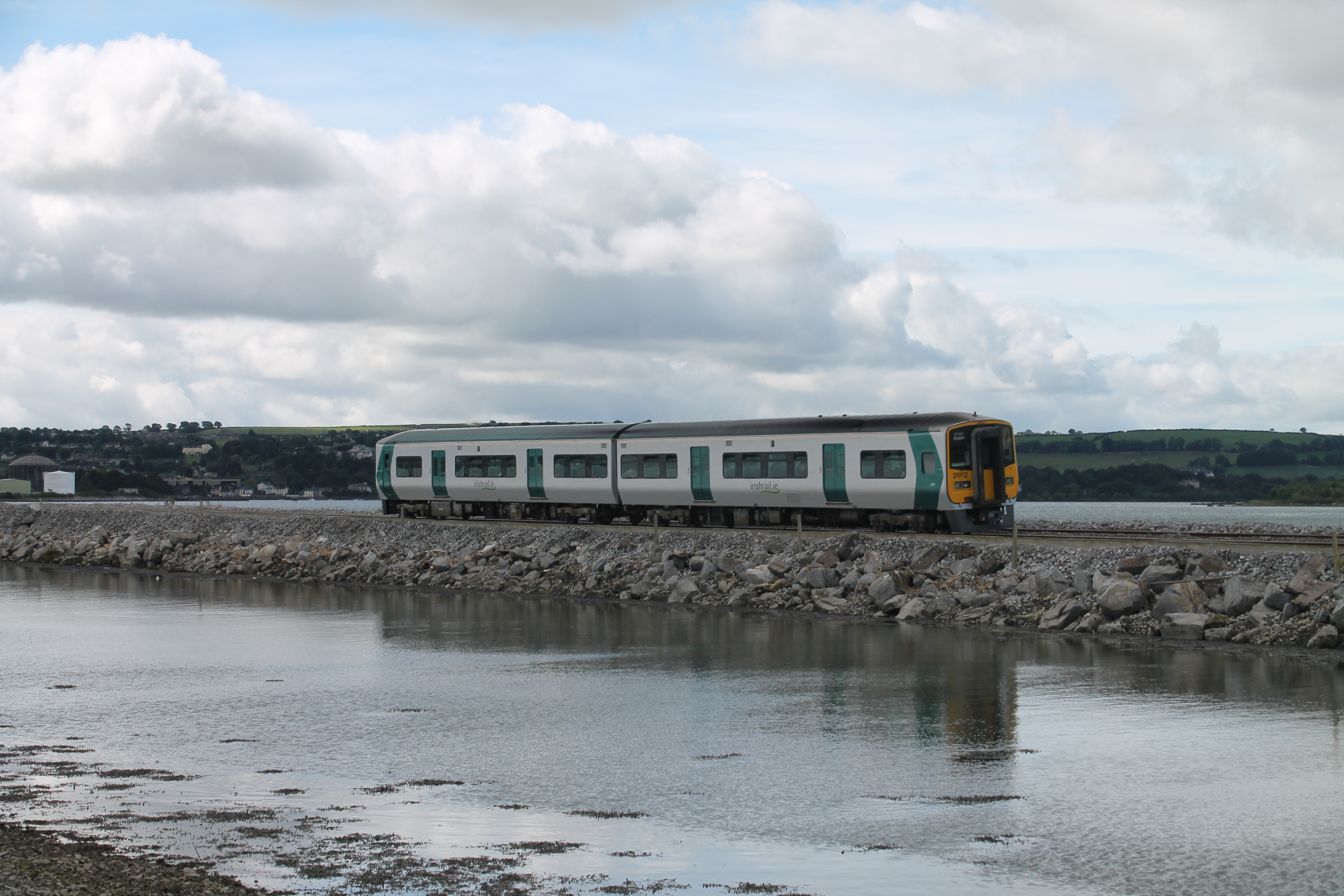 2600 Class railcar at Fota. 29/08/2013